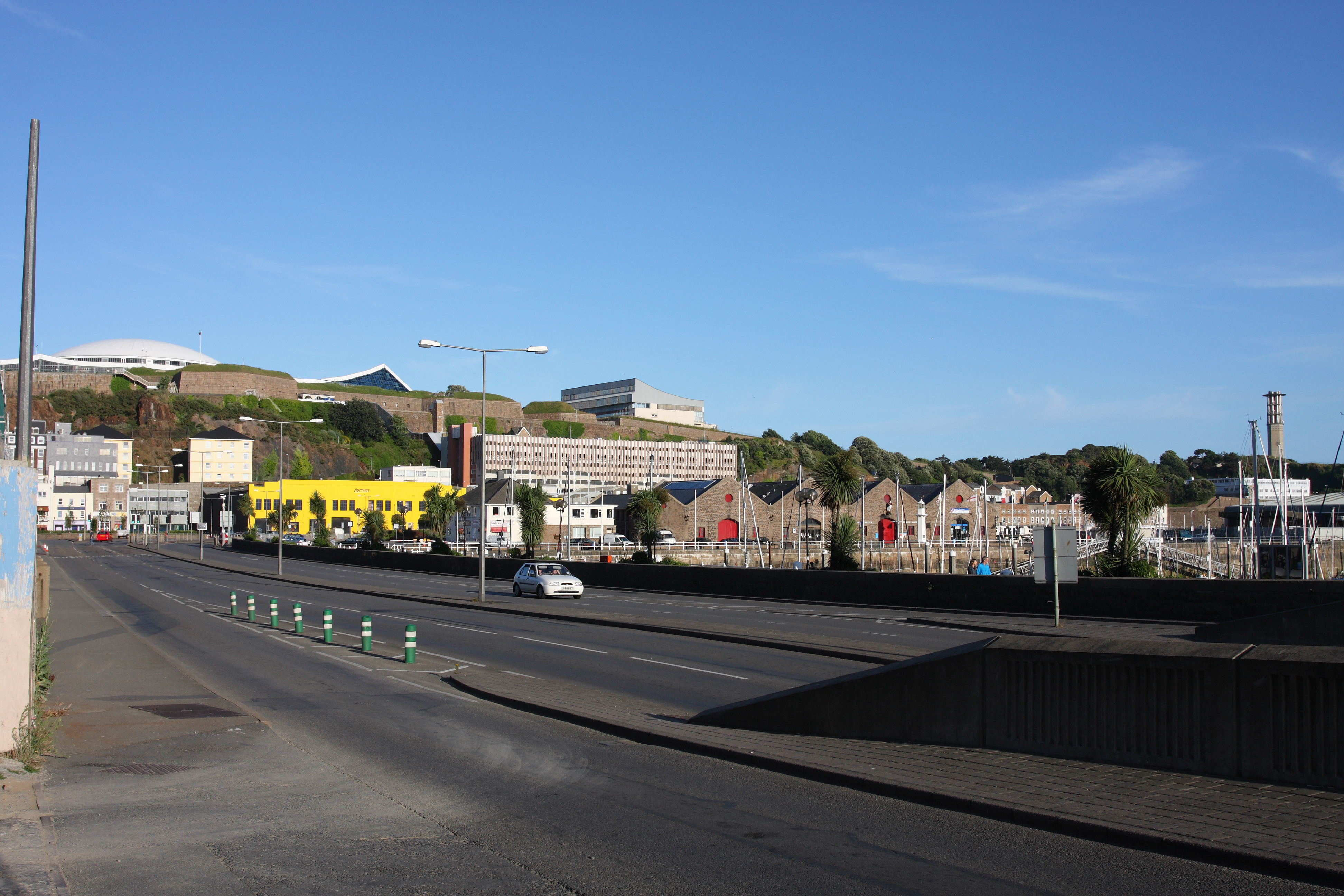 A1 road in St. Helier Jersey, Channel Islands.